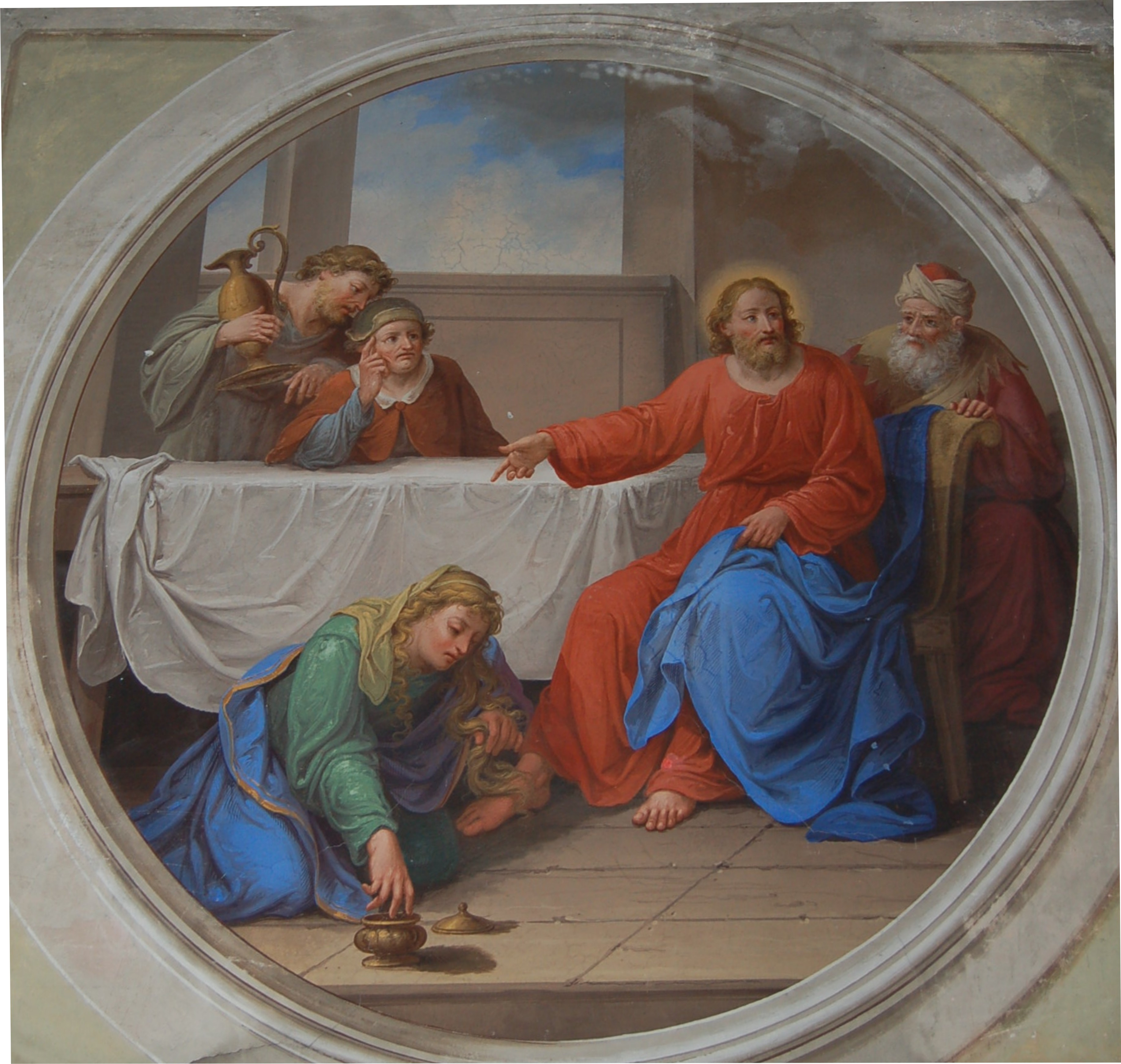 Affresco nella chiesa di s, pietro martire Baruffini Tirano Sondrio